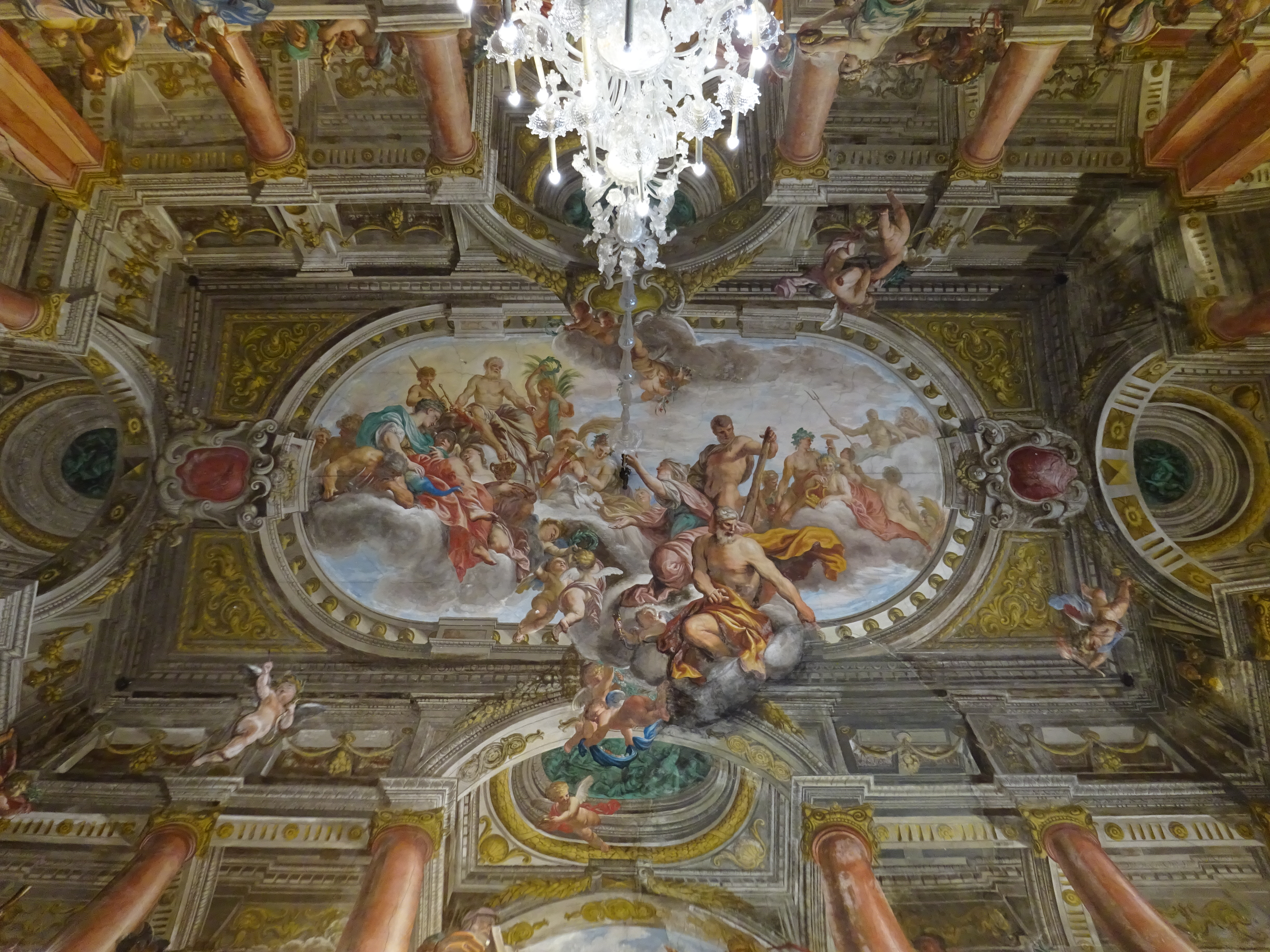 Fresco of Juppiter being offered with the keys of the Temple of Janus by Domenico Piola and Paolo Brozzi in Palazzo Pantaleo Spinola in Genoa